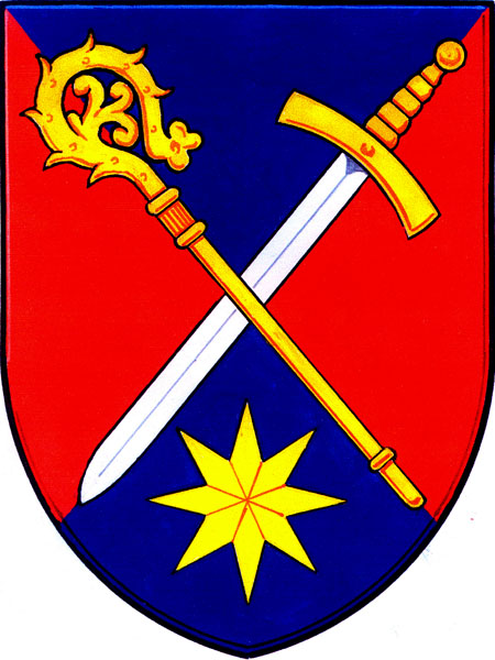 Emblem of municipal Pitín (Czech republik)